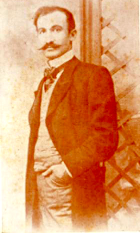 Portrait of Teotig (Teotoros Laptshindshiyan) (original caption: Teotig, Author of Everyone's yearbook and -unreadable- of Constantinople popular dictionary, medaled with the 1. [Hovsep] Izmiryants award I. 1905)